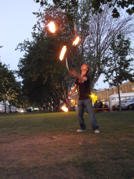 Chris Barnes juggling Torches at Salamanca Place Hobart Tasmania